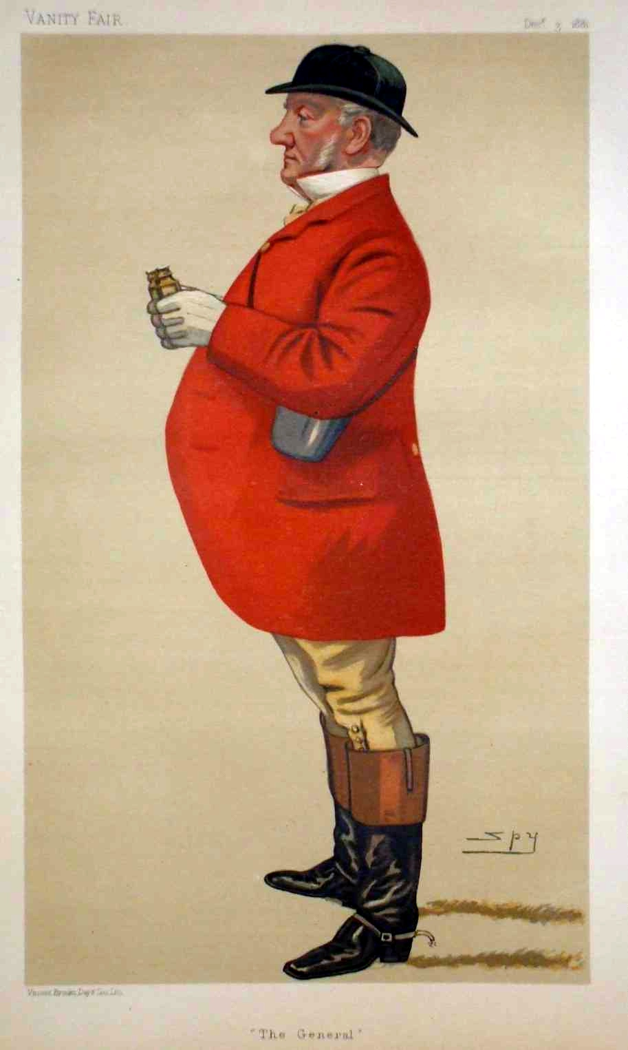 Caricature of Mordaunt Fenwick Bisset MP. Caption read "The General".